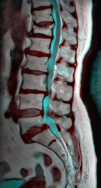 Lumbar Spine MRI 68M, T12 Compression fracture, L5-S1 spondylolisthesis, spondylosis at other levels